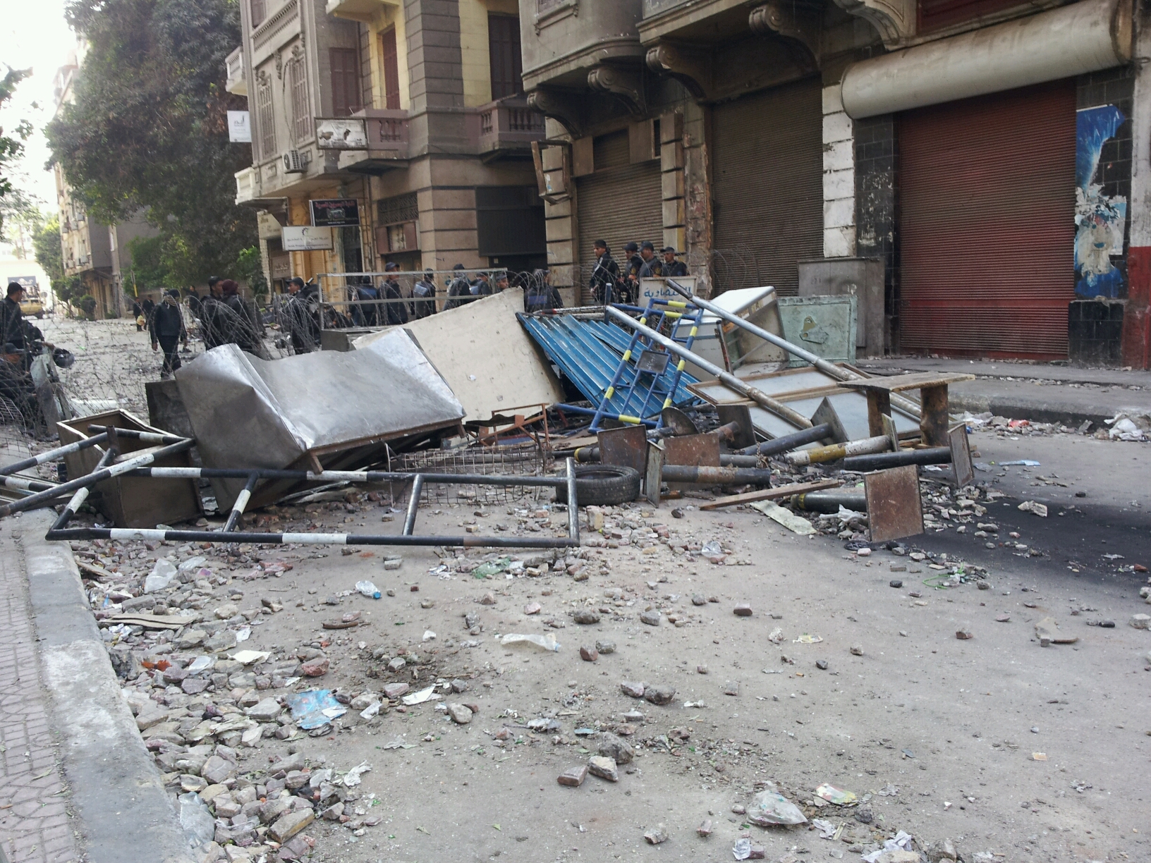 Makeshift barricade outside interior ministry gate.